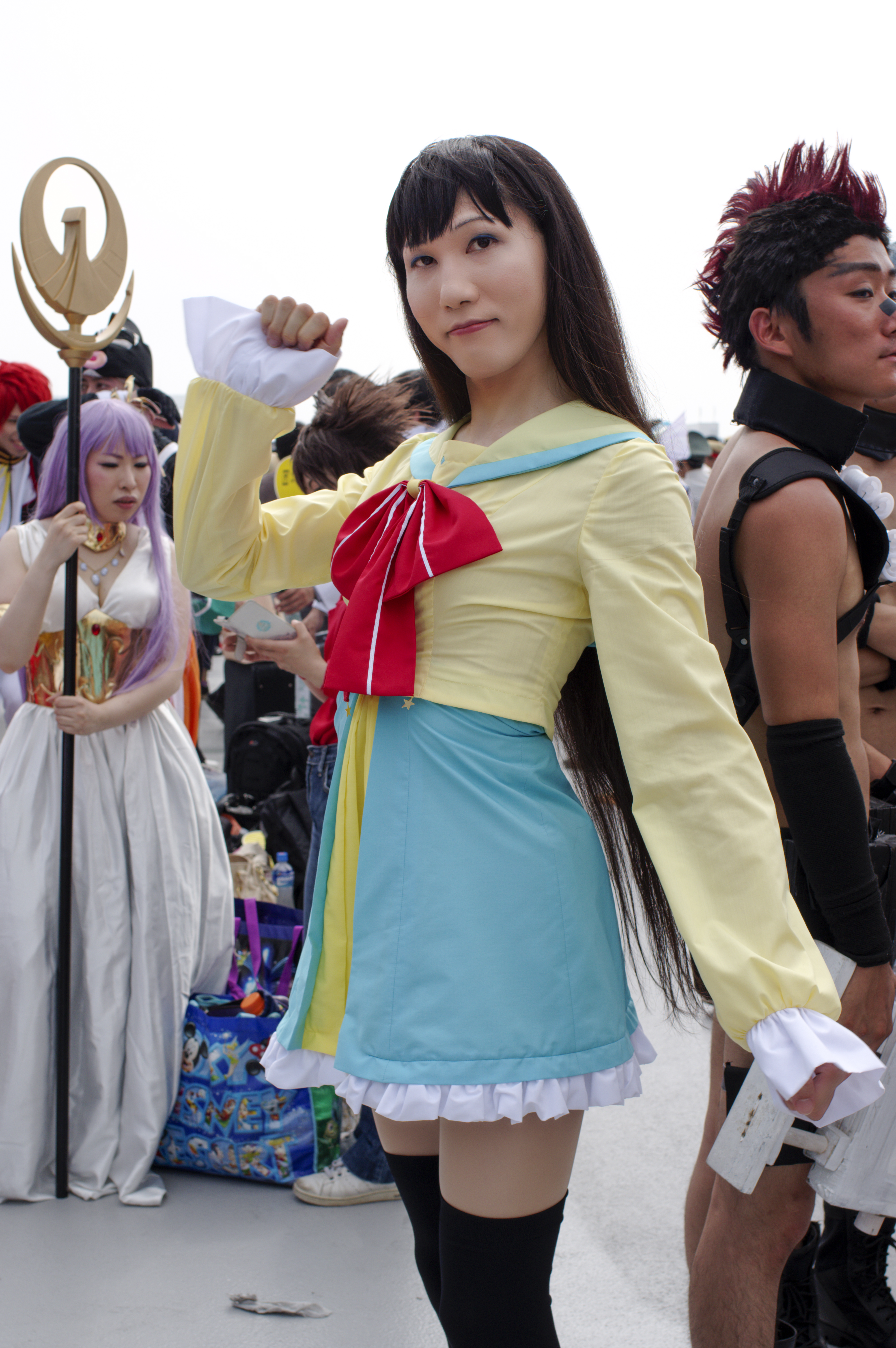 Developed with DxO Optics Pro 9.5.1. Post-processed with Lightroom 5.6, Color Efex Pro 4 and Viveza 2.